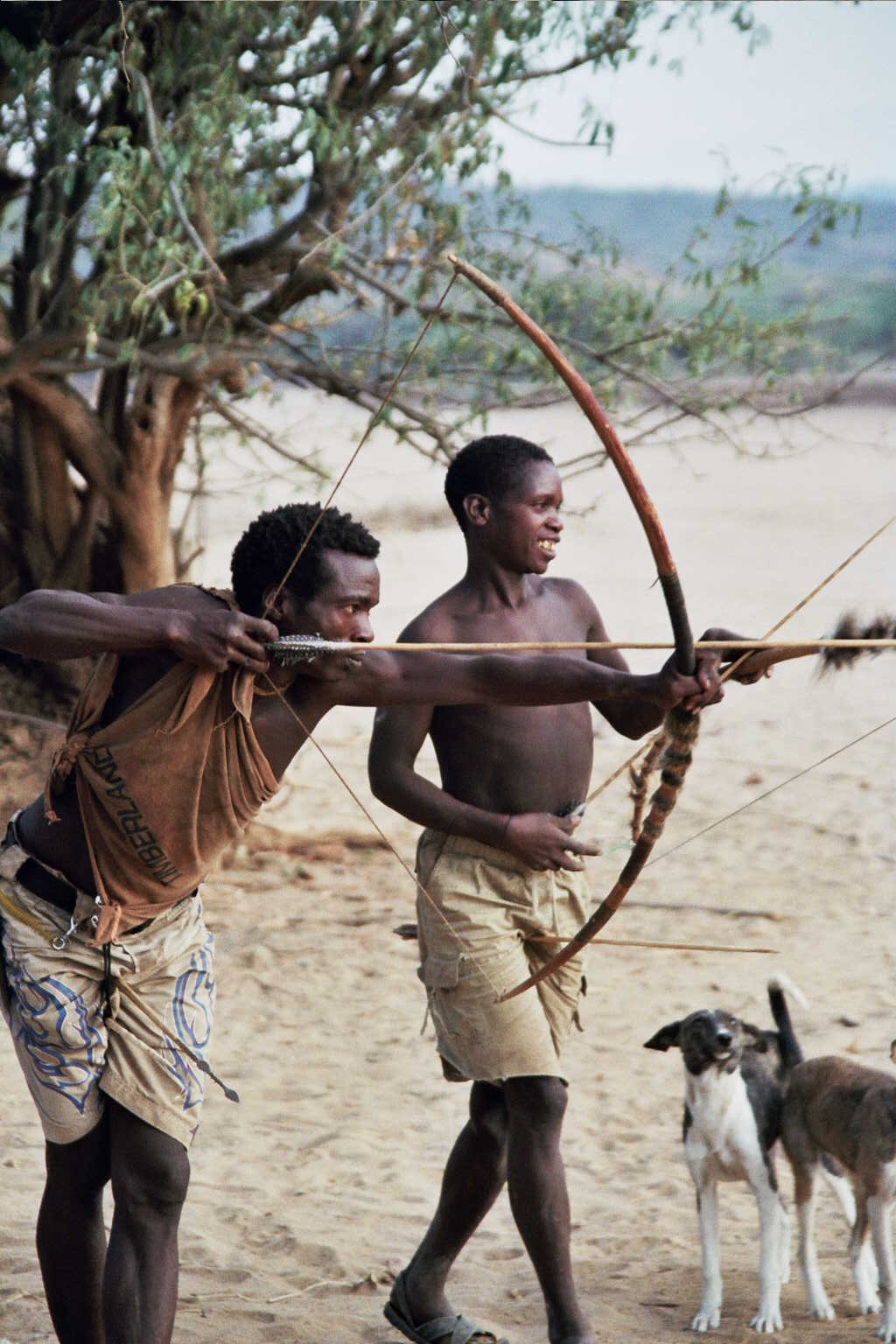 Hadzabe Men Practicing Bowing